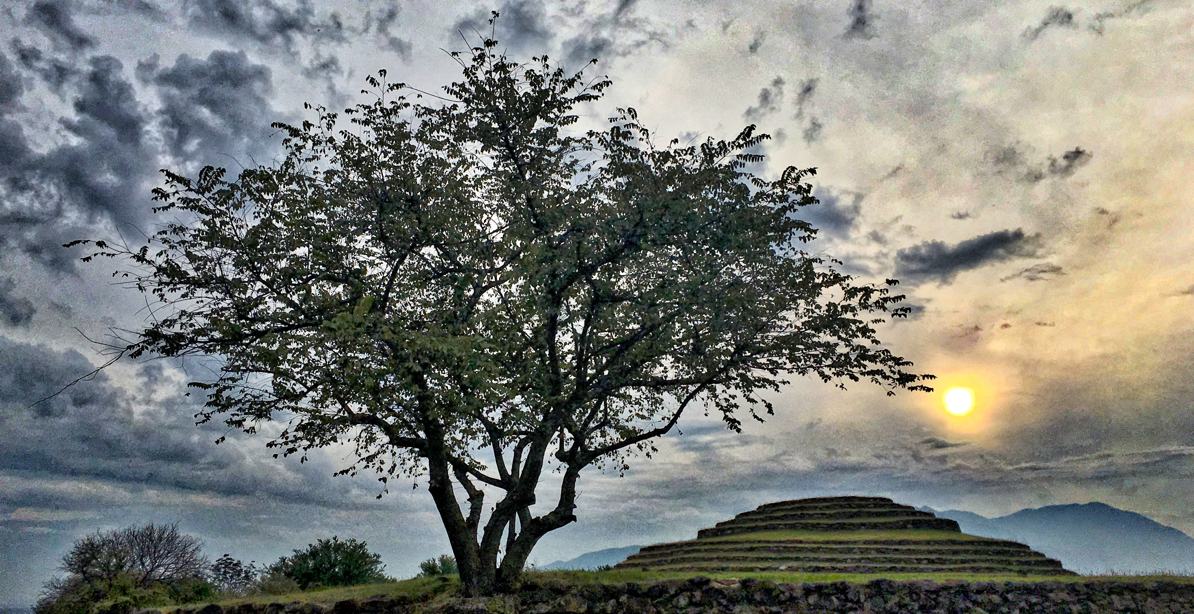 A visit to the ancient, round pyramids